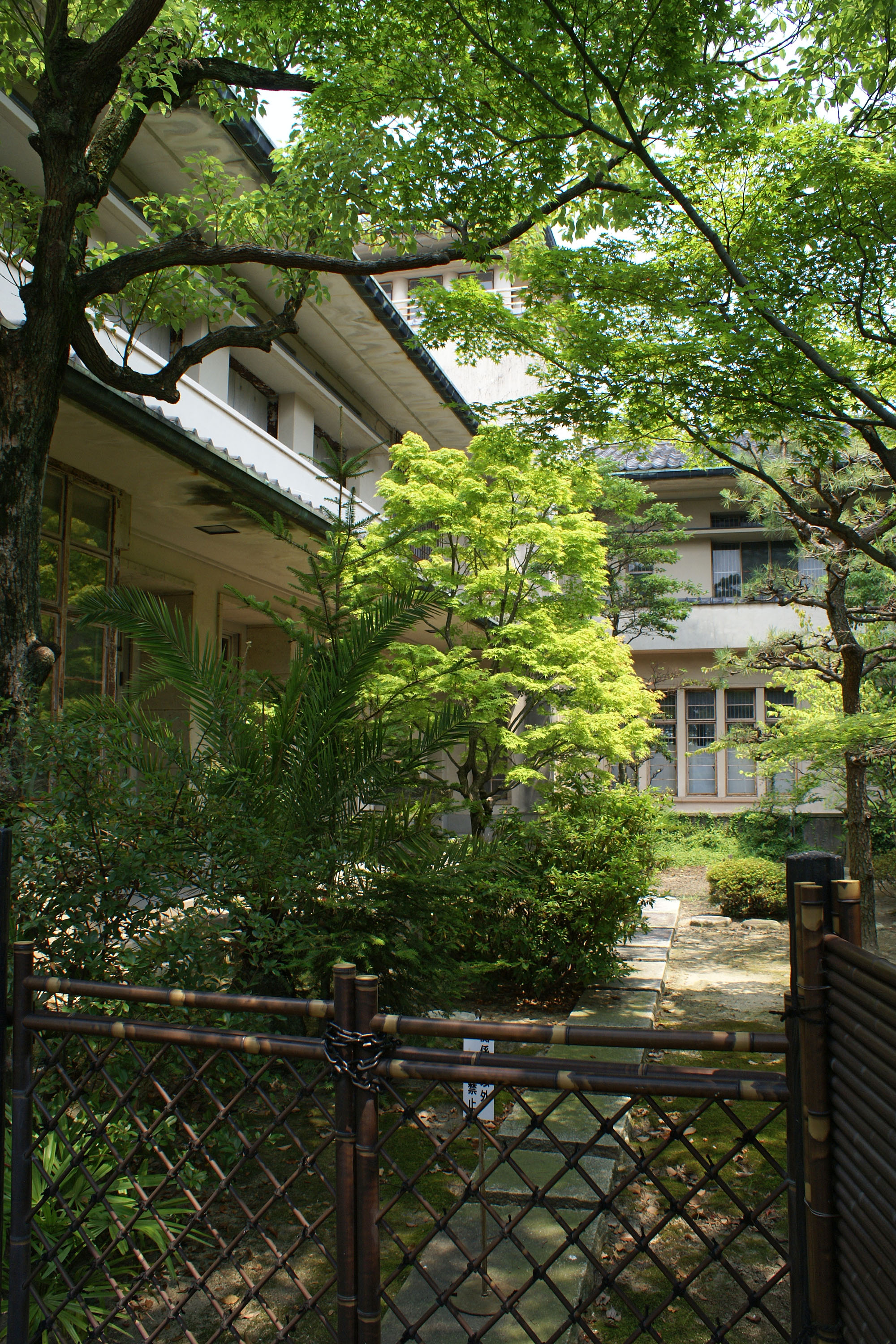 Tekisui Museum of Art in Ashiya, Hyogo, Japan